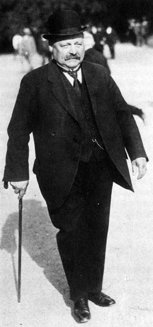 Swedish labour leader Herman Lindqvist